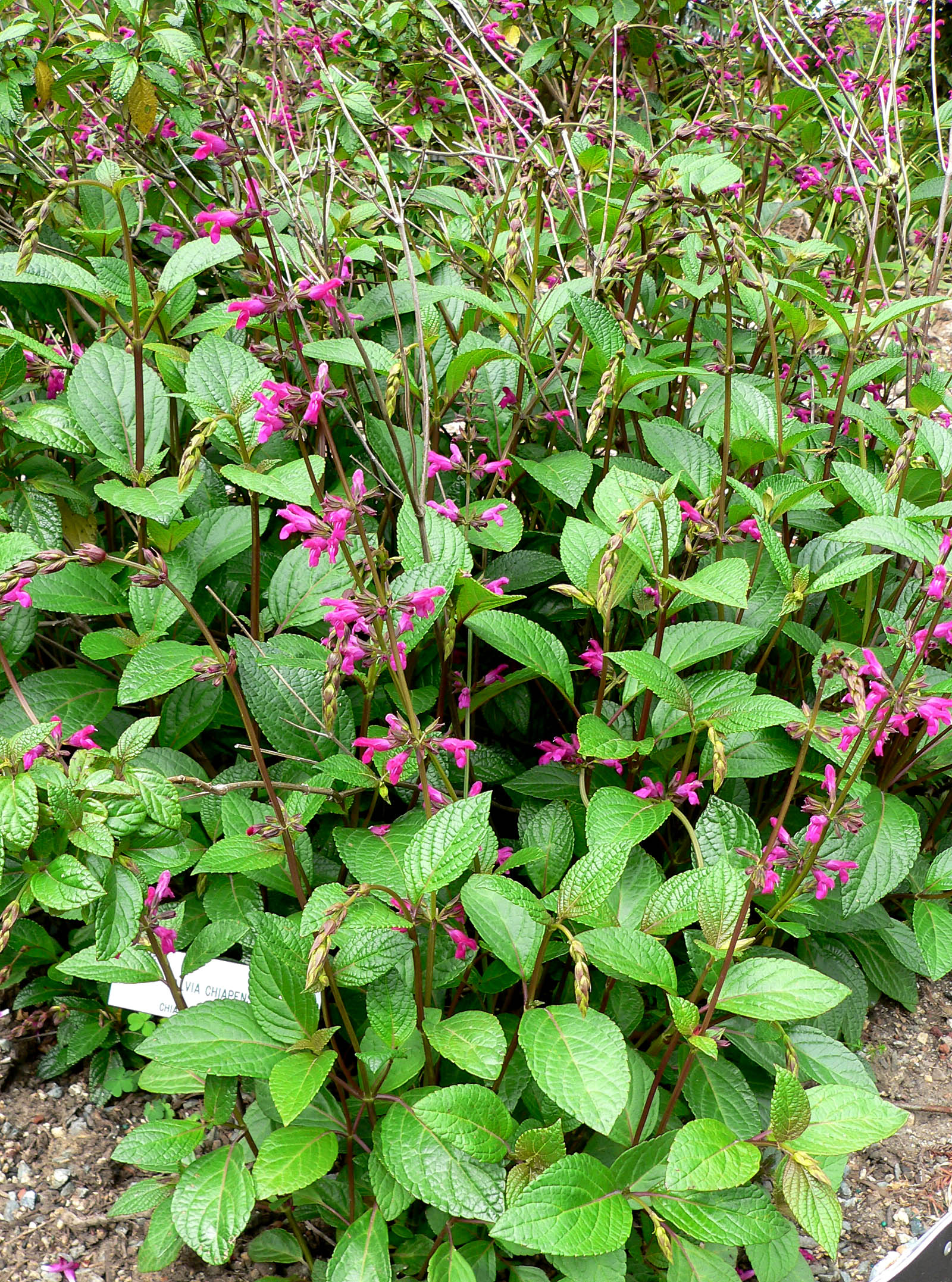 Photo of Salvia chiapensis at the University of California Botanical Garden